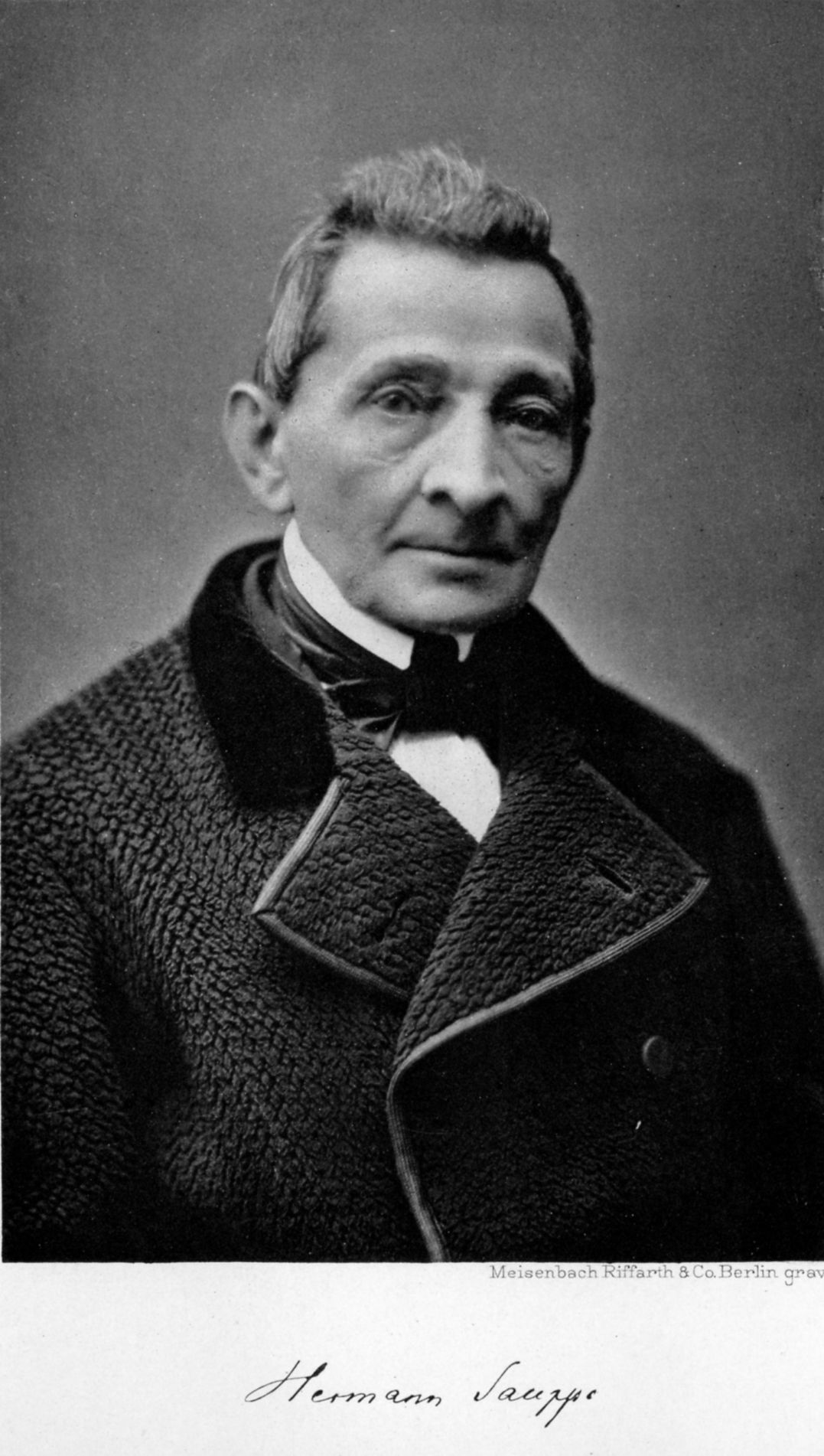 Hermann Sauppe (1809–1893). Photograph made by Meisenbach, Riffarth & Co. (active 1878—1988 in Munich, later [1909] Berlin)